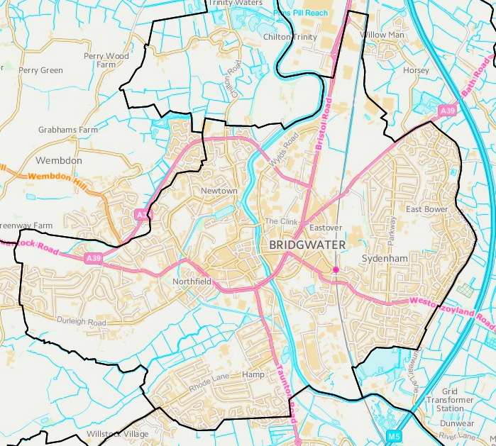 It is a basic plan to show the council's jurisdiction.